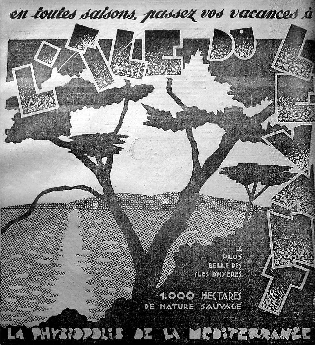 Drawing of an Advertisement for Heliopolis in a newspaper.